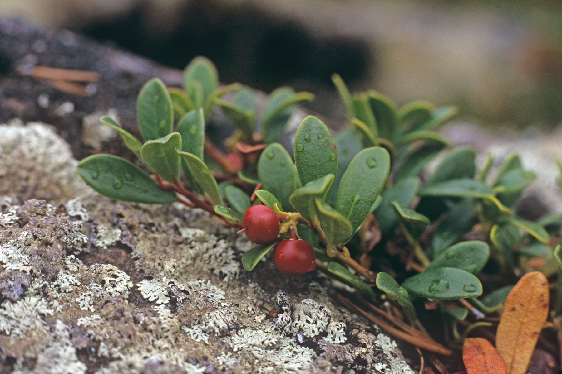 Arctostaphylos uva-ursi (L.) Spreng. - with fruits. Karelia — northwestern Russia.